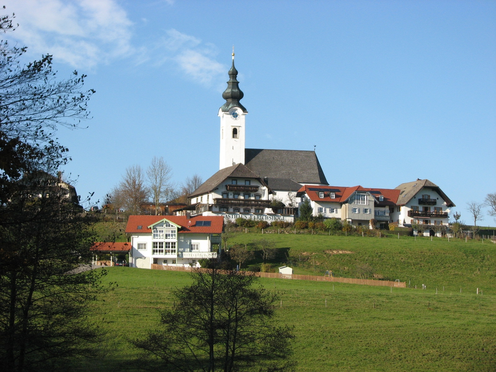 Church an hamlet St. Ulrich at Ainring, Bavaria